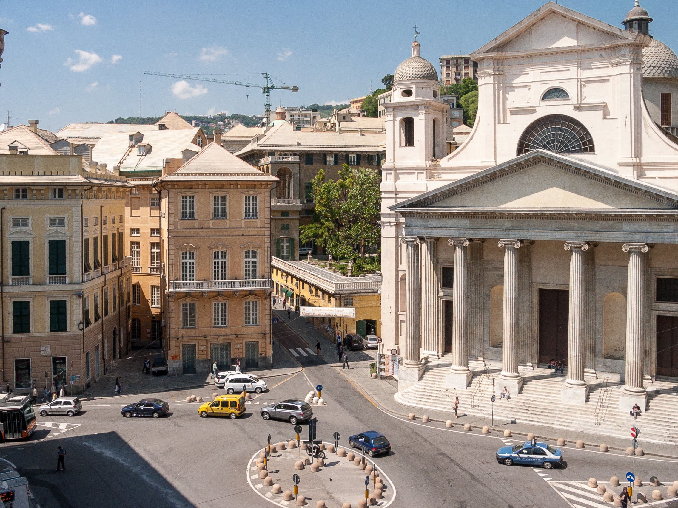 Genoa, Piazza della Nunciata with Basilica Santissima Annunziata del Vastato (2007)